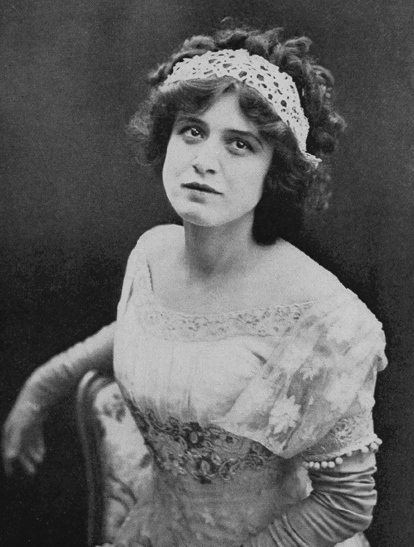 Photo of actress Ethel Jewett.